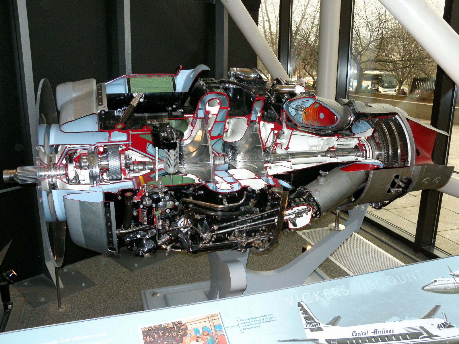 Design of the Rolls-Royce Dart turboprop engine began in April 1945 and was completed by June 1946. The engine first ran in July 1946, and first flew in the nose of a Lancaster testbed aircraft in October 1947. A major contribution to the initial success of the Dart was its selection for the Vickers Viscount, the first turboprop-powered airliner. Powered by four 932 KW (1,250 shp) Dart Mk. 504 engines, the prototype Viscount 630 first flew in July 1948. Ultimately, the Dart was upgraded to develop more than 2,237 KW (3,000 shp). Production ended in 1987, with 7,100 engines delivered. Other commercial aircraft using the Dart were the Fokker F.27 Friendship, Fairchild Hiller 227, Hawker Siddeley 748, Grumman Gulfstream I, and NAMC YS-11. Military versions powered such aircraft as the Breguet Alize, Handley Page Herald, Armstrong Whitworth Argosy, Avro 748, and Andover CC Mk. 2 . This artifact powered the Vickers Viscount 806.